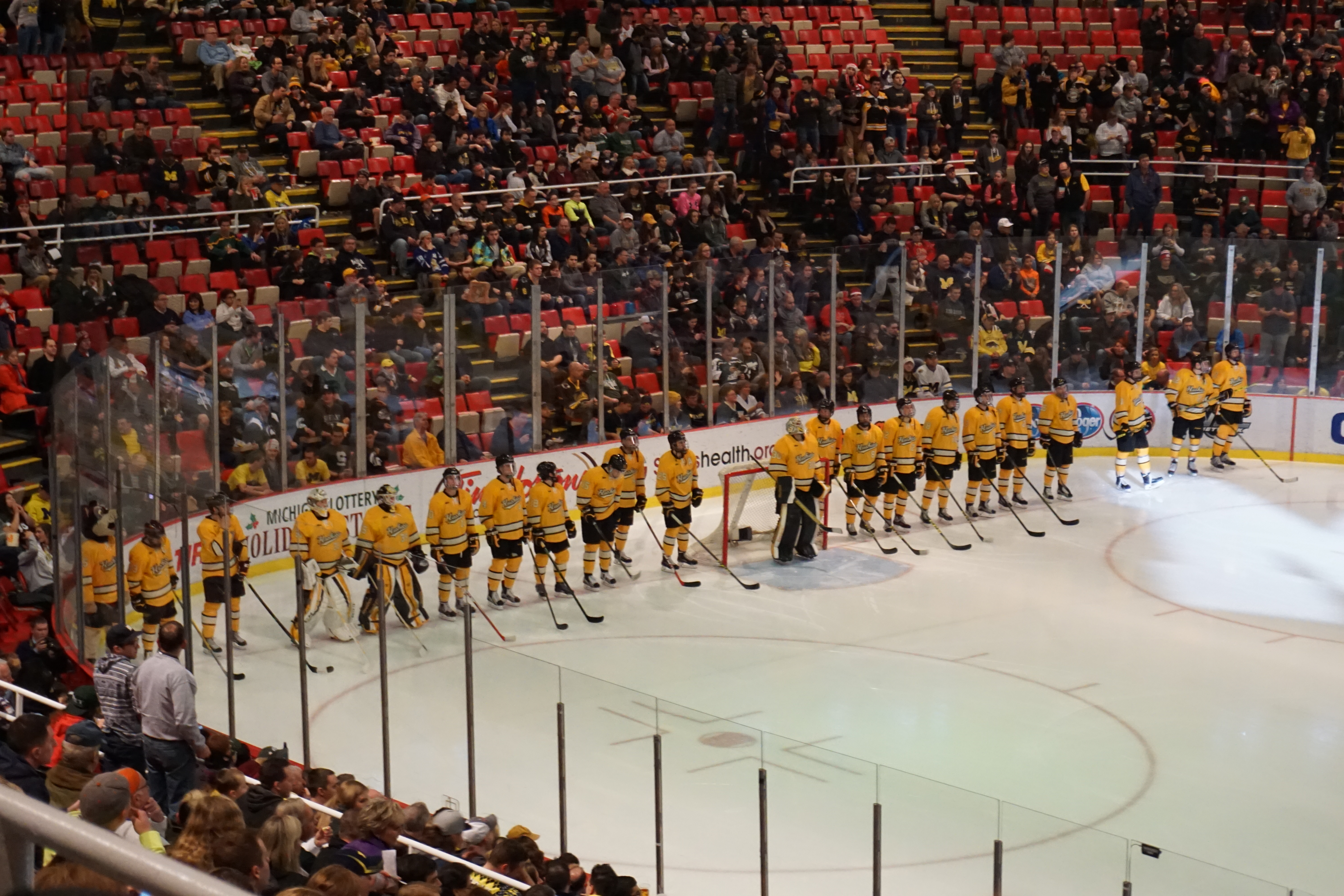 Michigan Tech player introductions before the Michigan Wolverines vs. Michigan Tech Huskies men's ice hockey game (the 2015 Great Lakes Invitational championship game) at Joe Louis Arena in Detroit, Michigan (United States). Michigan won 4–2.